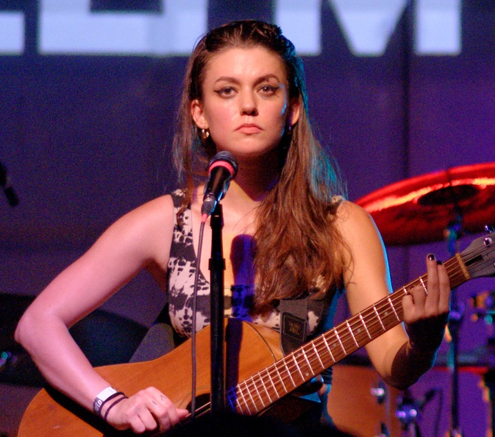 Meg Myers performing live at The Echo in Los Angeles California on Thursday September 18th, 2014.